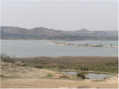 Paisaje Laguna salada de Chiprana